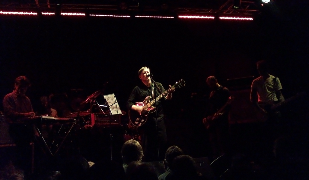 Swans in Tallinn, 17.05.2011